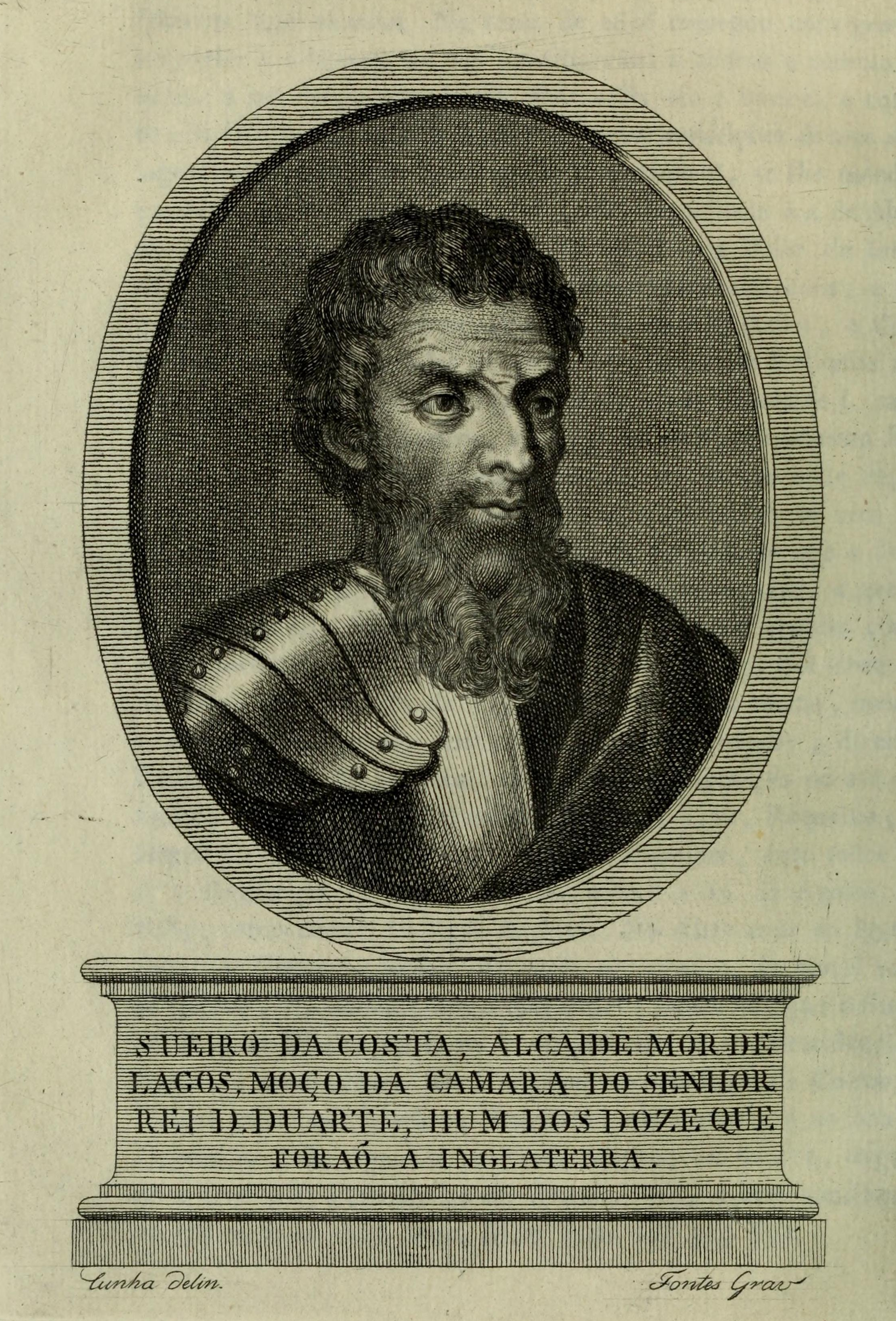 Soeiro da Costa (c. 1390-1472), a Portuguese sailor, and one of the Twelve of England.